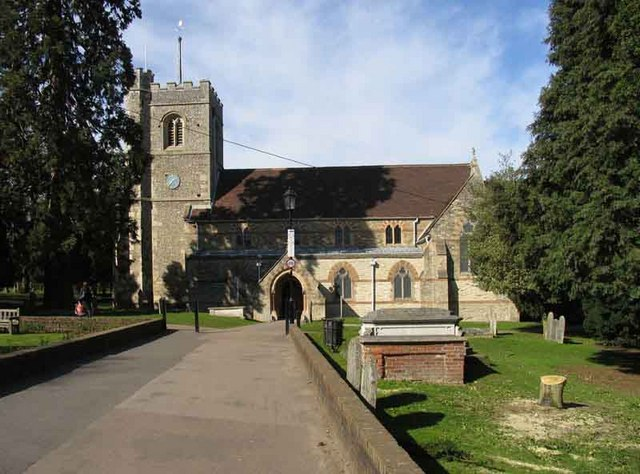 St Nicholas' parish church, Harpenden, Hertfordshire, seen from the south